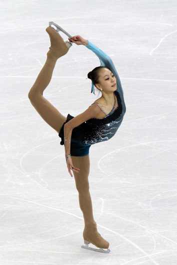 Kwak Min-Jung(KOR) at the 2010 Winter Olympics.